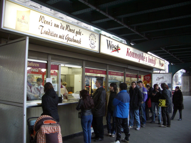 The legendary fast food imbiss "Konopke" old (2005) in Berlin-Prenzlauer Berg, Germany